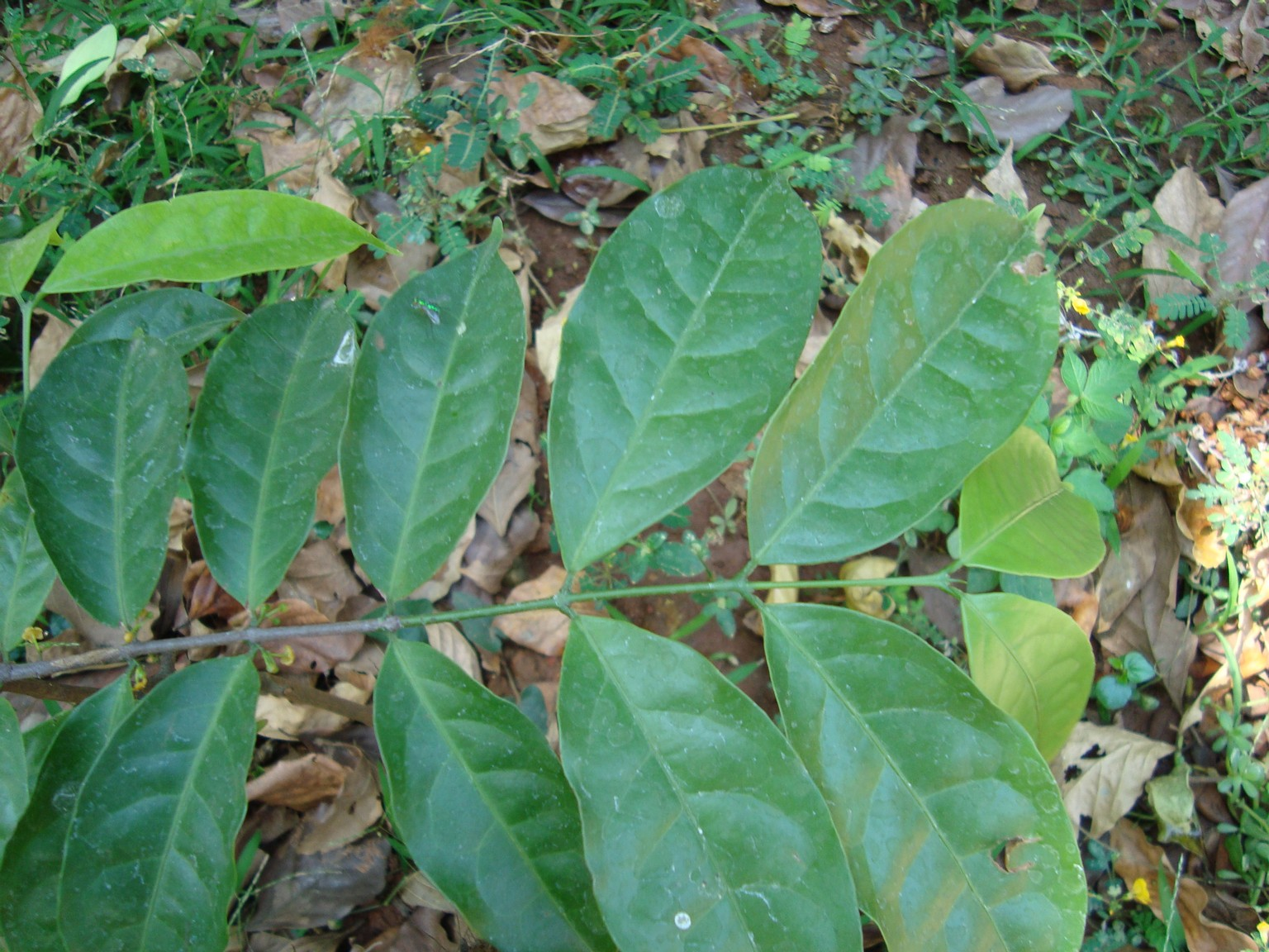 Kothala himbutu, at Thrissur, Kerala, India